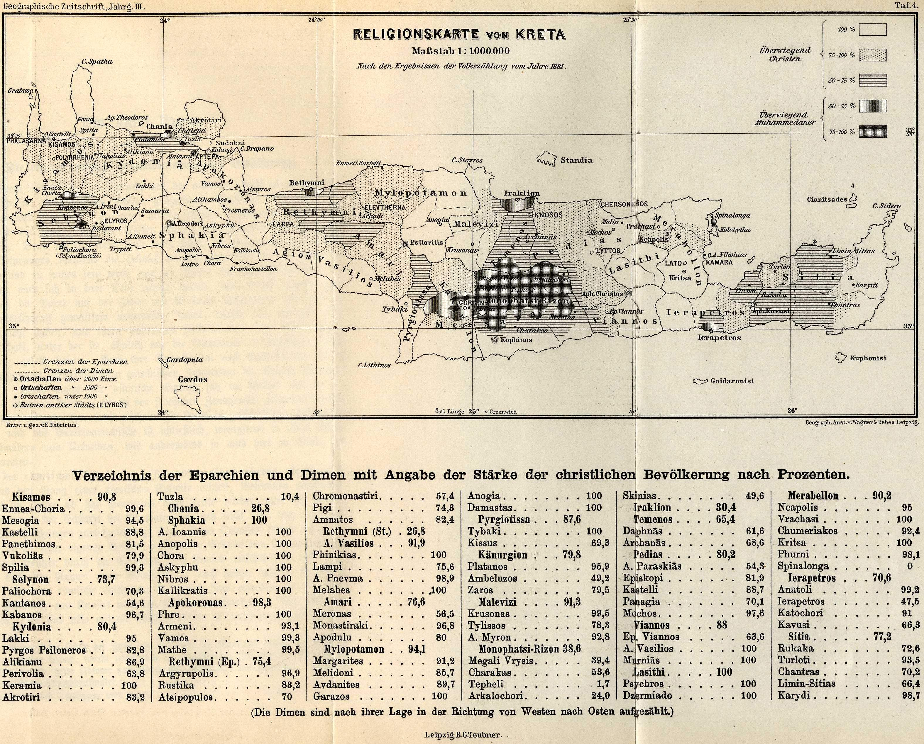 Religions in Crete